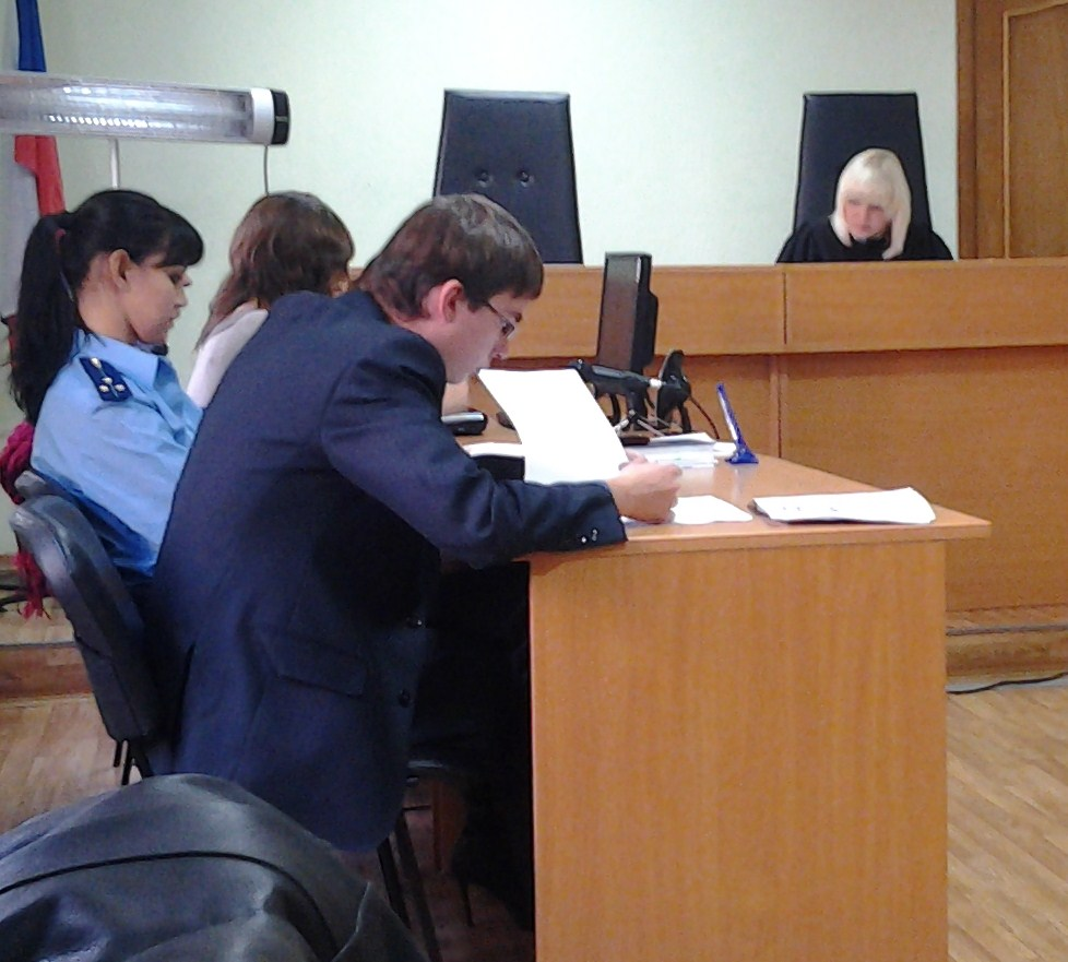 Court hearing on the case of the Free Oryol Encyclopedia "Orlec" (2012-10-03).